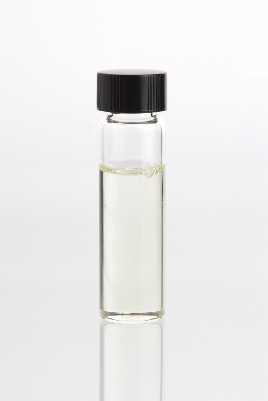 Glass vial containing White Fir Essential Oil